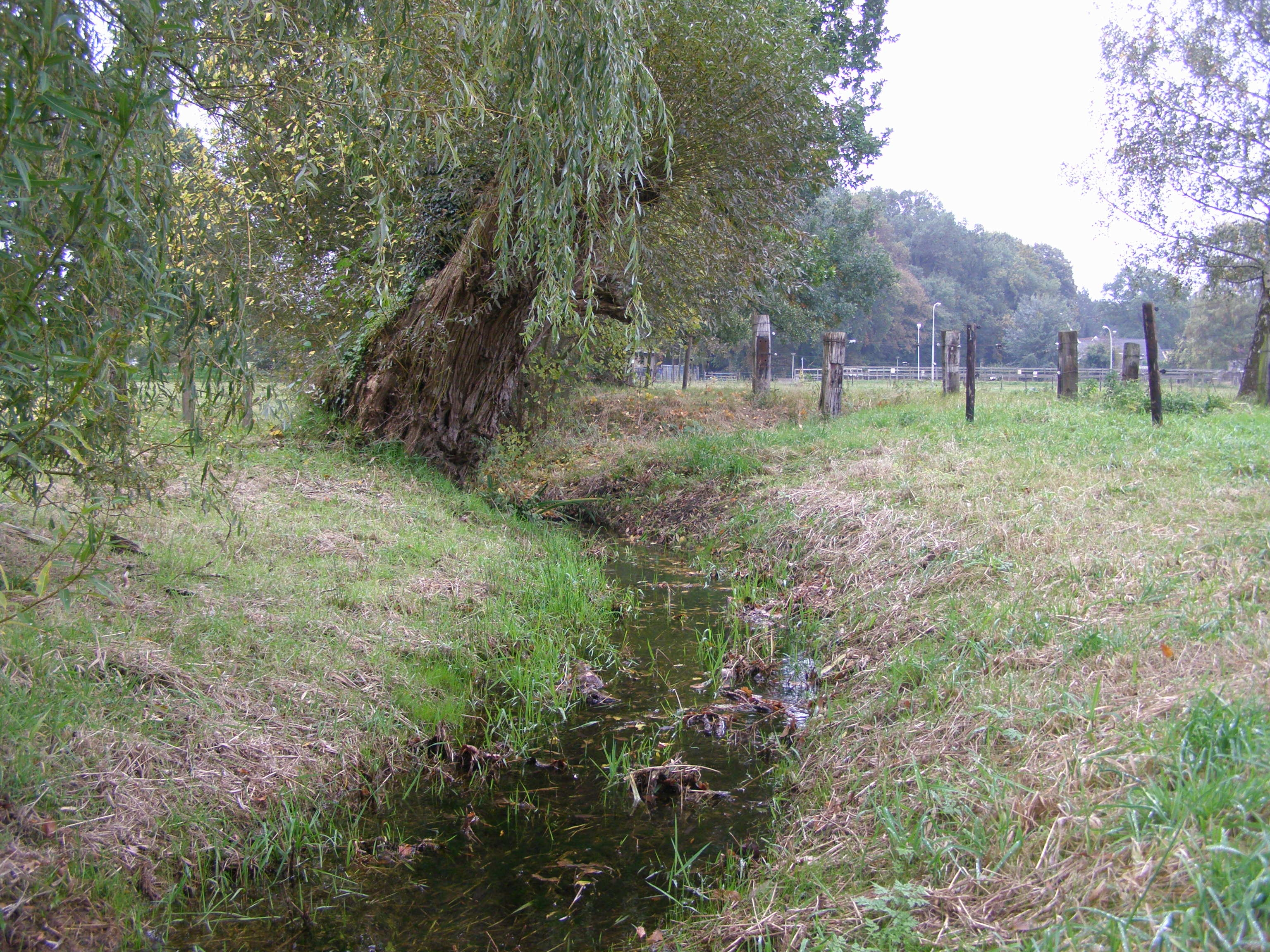 The Roombeek is a Dutch brook near Enschede, Overijssel. On the image of the Roombeek at the height of the Ledeboer Park